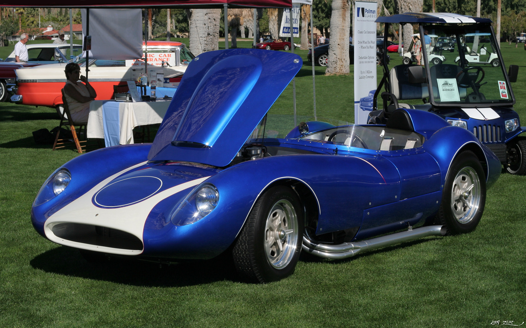 Palm Springs Desert Classic Concours d'Elegance, March 01, 2009